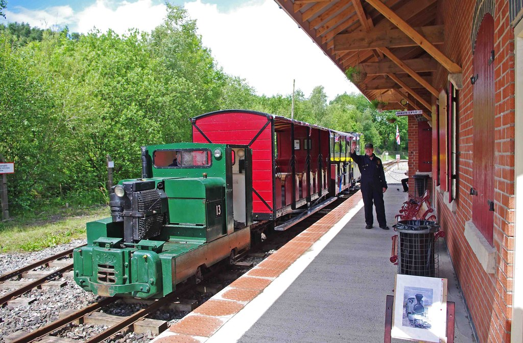 Train at Apedale Valley Light Railway station, Apedale Community Country Park, near Chesterton This two carriage train was hauled by Simplex diesel locomotive 13. It gave visitors a short trip along the line, as far as it currently went, and back to the station.